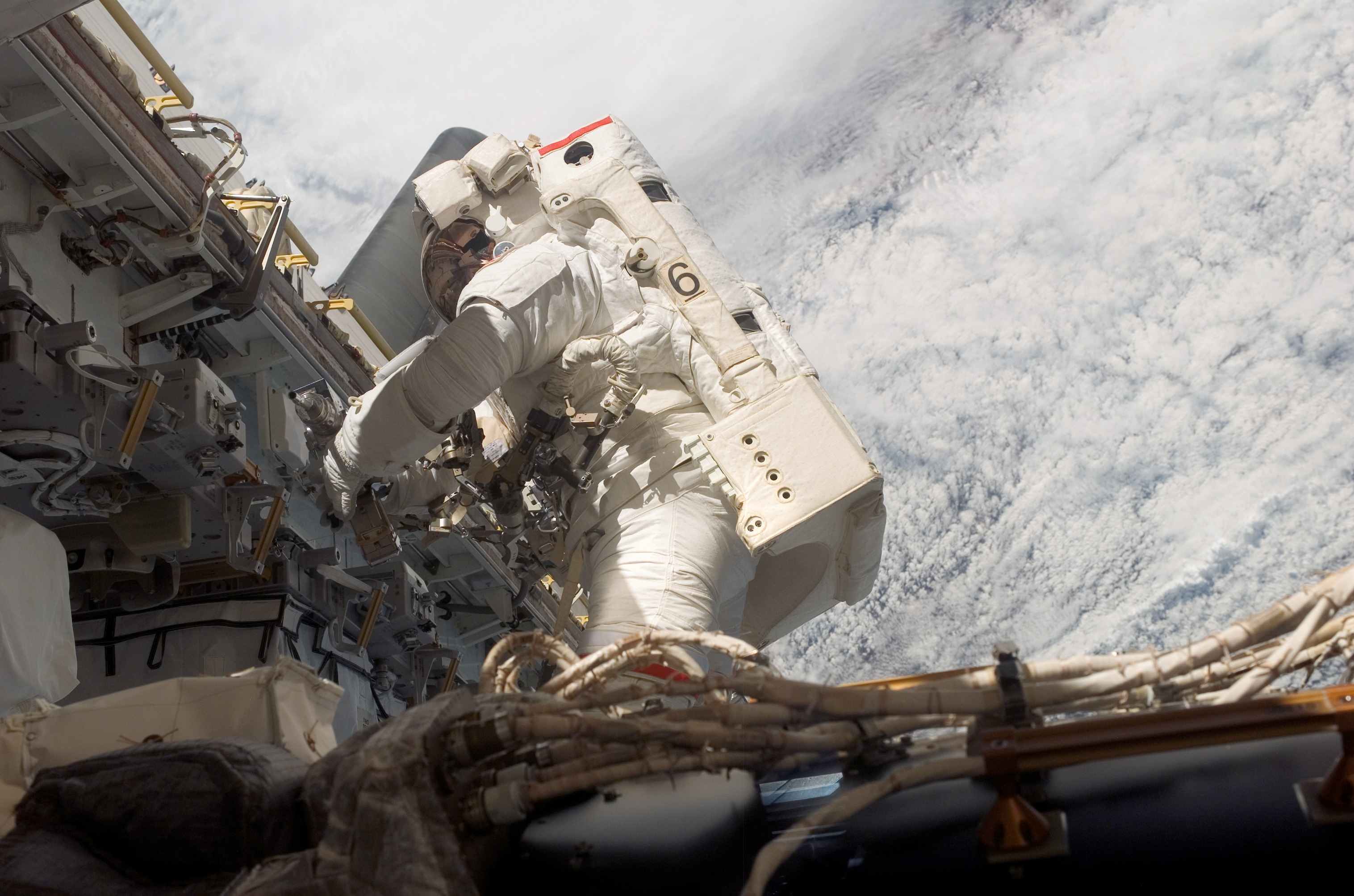 Astronaut Rick Linnehan, STS-123 mission specialist, participates in the mission's third scheduled session of extravehicular activity (EVA) as construction and maintenance continue on the International Space Station. During the 6-hour, 53-minute spacewalk, Linnehan and astronaut Robert L. Behnken (out of frame), mission specialist, installed a spare-parts platform and tool-handling assembly for Dextre, also known as the Special Purpose Dextrous Manipulator (SPDM). Among other tasks, they also checked out and calibrated Dextre's end effector and attached critical spare parts to an external stowage platform. The new robotic system is scheduled to be activated on a power and data grapple fixture located on the Destiny laboratory on flight day nine.